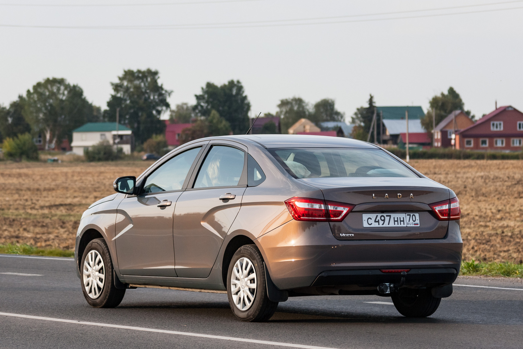 Lada Vesta sedan. Photographed in Tomsk, Russia.